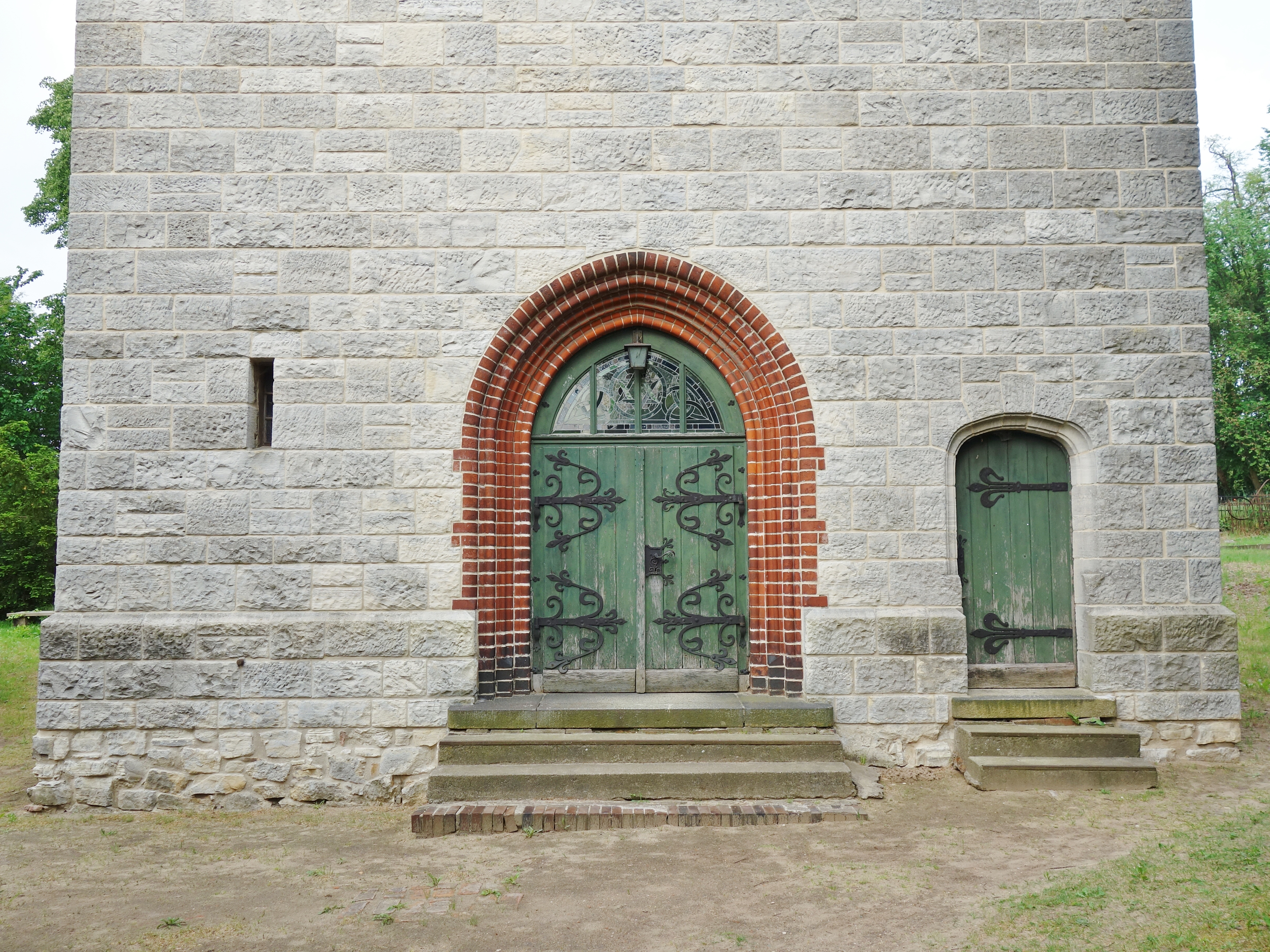 Western portal of church in Uetz, Potsdam municipality, Havelland district, Brandenburg state, Germany